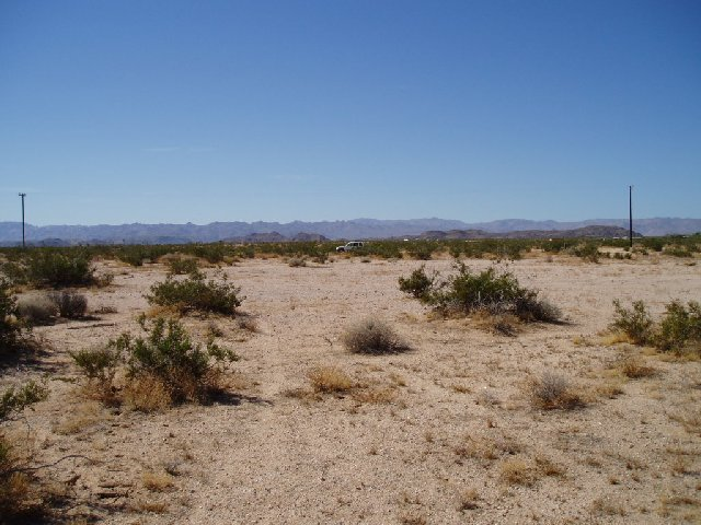 Desert landscapes of the Republic of Molossia.